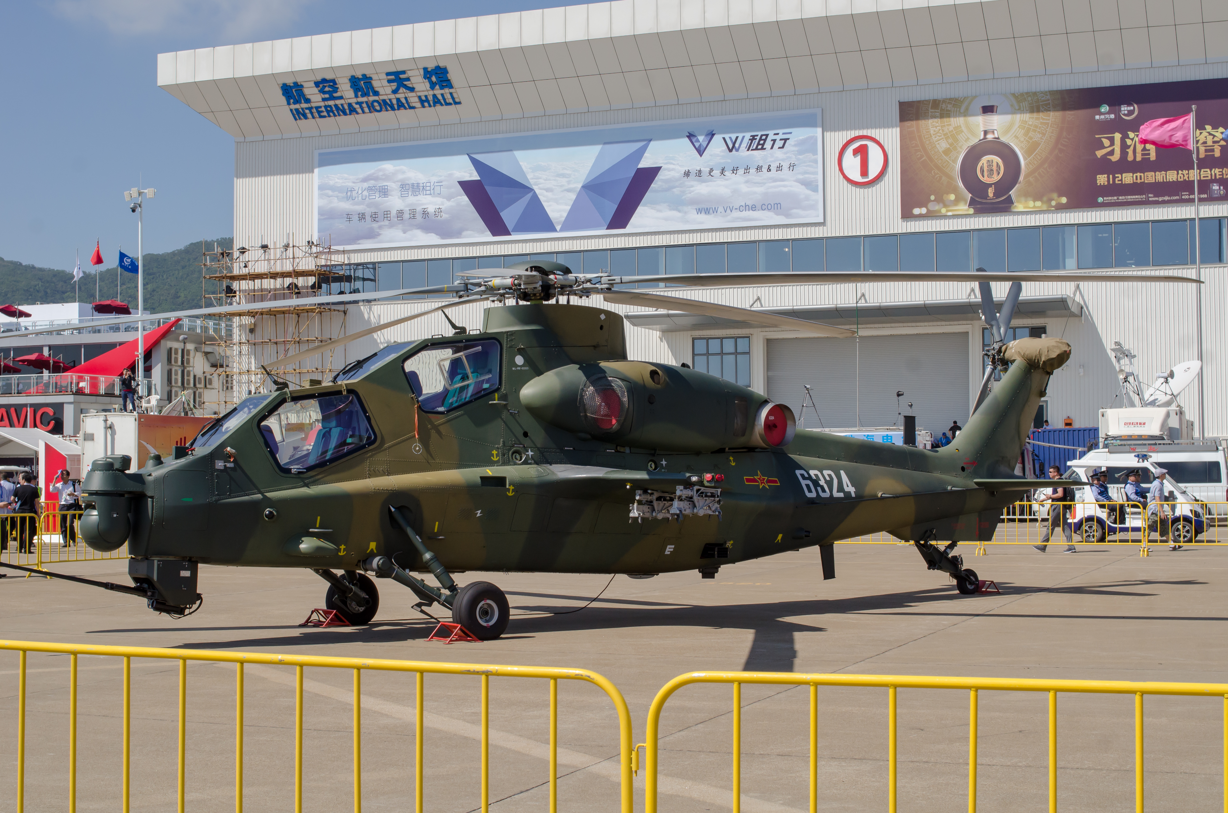 PLAGF Z-10#6324 at ZhuHai Air Show 2018